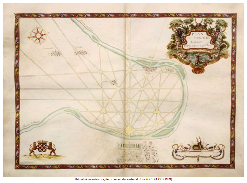 A map lettered by Estienne Damoiselet (Paris BNF (Mss.) : GE DD 4728 RES).